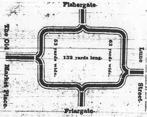 Plan of proposed Preston Market, Preston UK, published in the Preston Guardian 1848